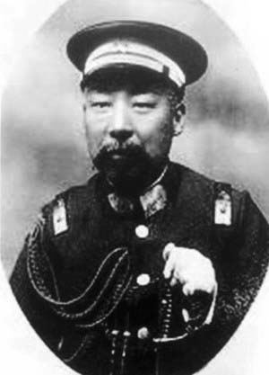 Jiang Chaozong